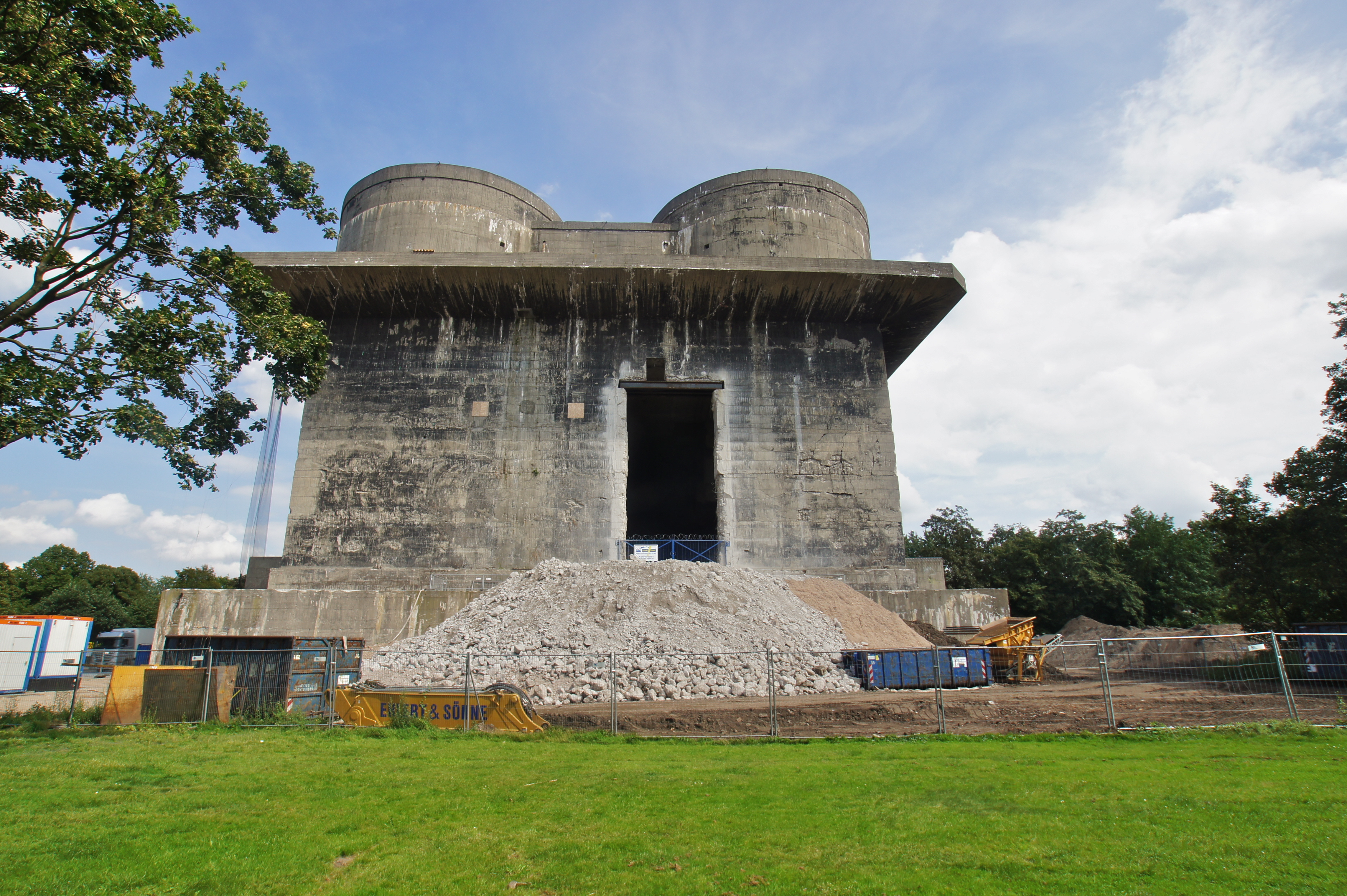 Hamburg (Wilhelmsburg), Germany: Western facade of Flak tower n°VI during renovation works